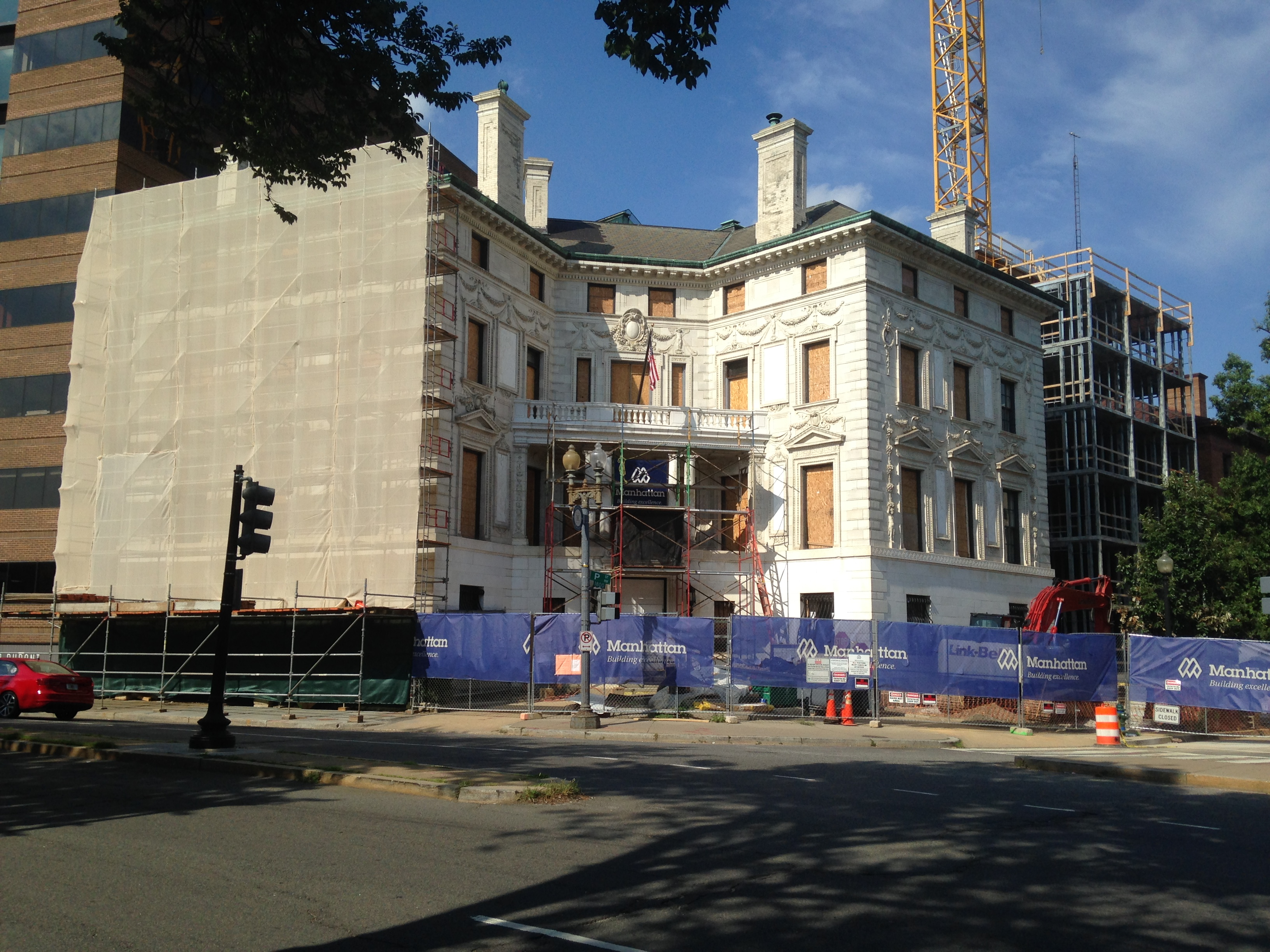 Patterson mansion designed by McKim, Mead, and White which sits on DuPont Circle in Washington DC and is currently being renovated. It was used for many years by the Washington Club